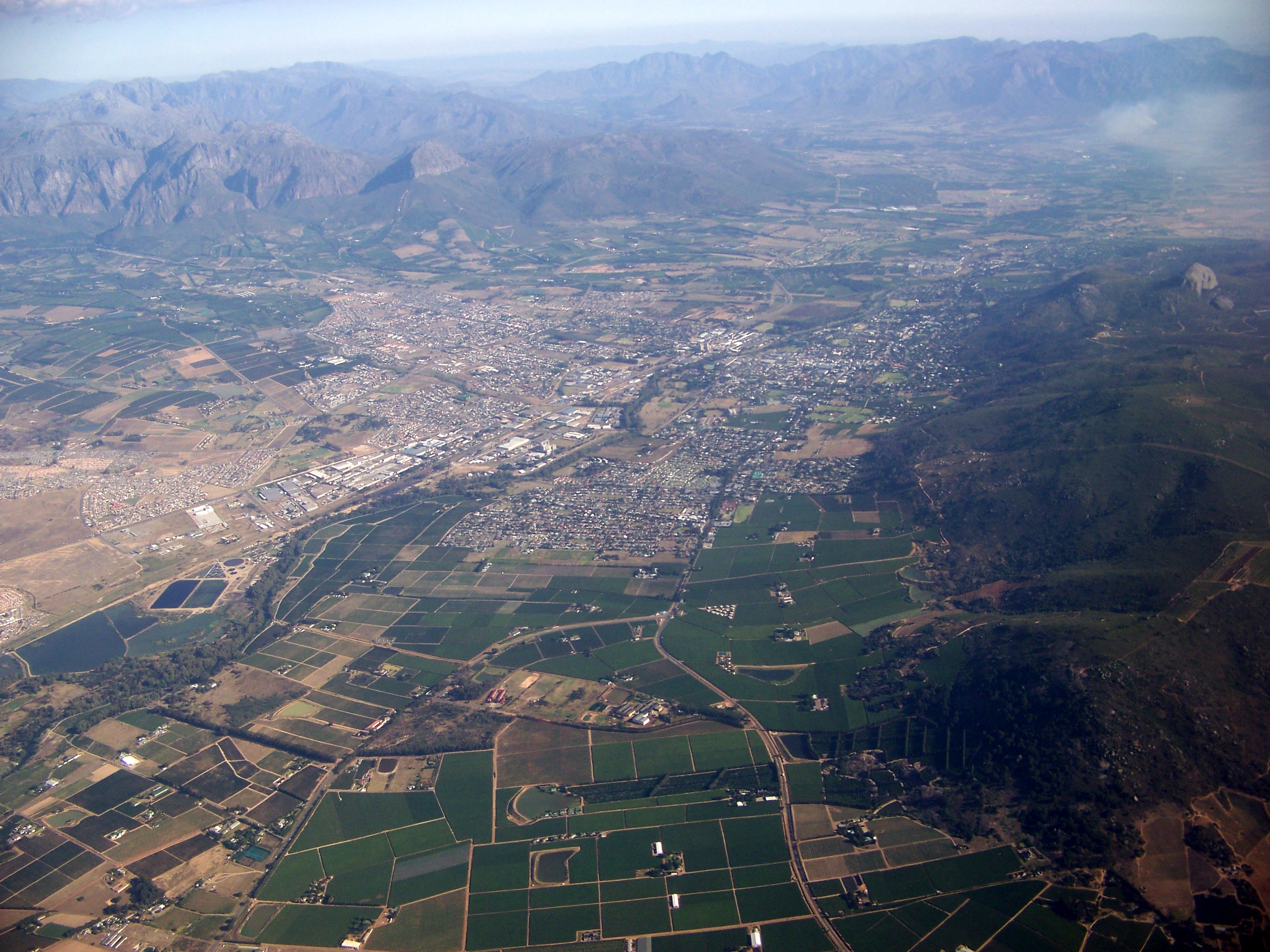 Paarl viewed from the plane, Klein Drakenstein Mountains in rear/left and Paarl Mountain to right